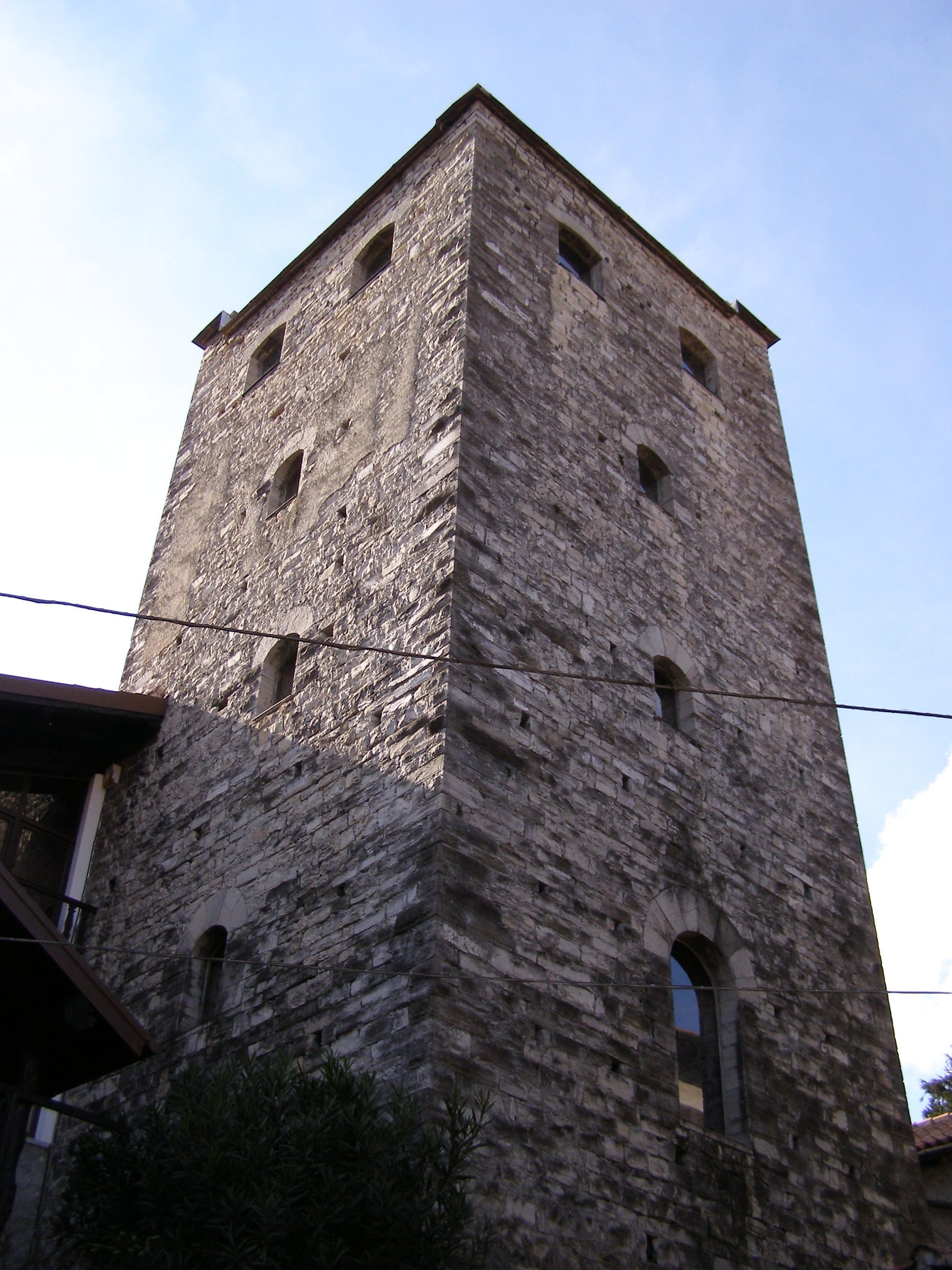 Lenno - medieval signalization tower